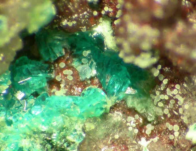 Nissonite Locality: Iron Monarch open cut, Iron Knob, Middleback Range, Eyre peninsula, South Australia, Australia (Locality at ) Field of view 4 mm. Specimen and photo Leon Hupperichs. My thanks to Volker Hoppe for this exchange specimen.